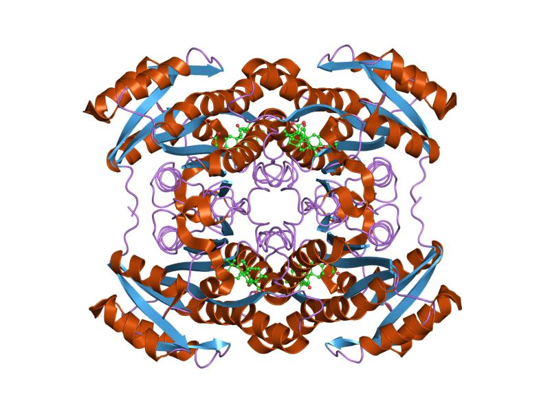 Cartoon representation of the molecular structure of protein registered with 1hdc code.